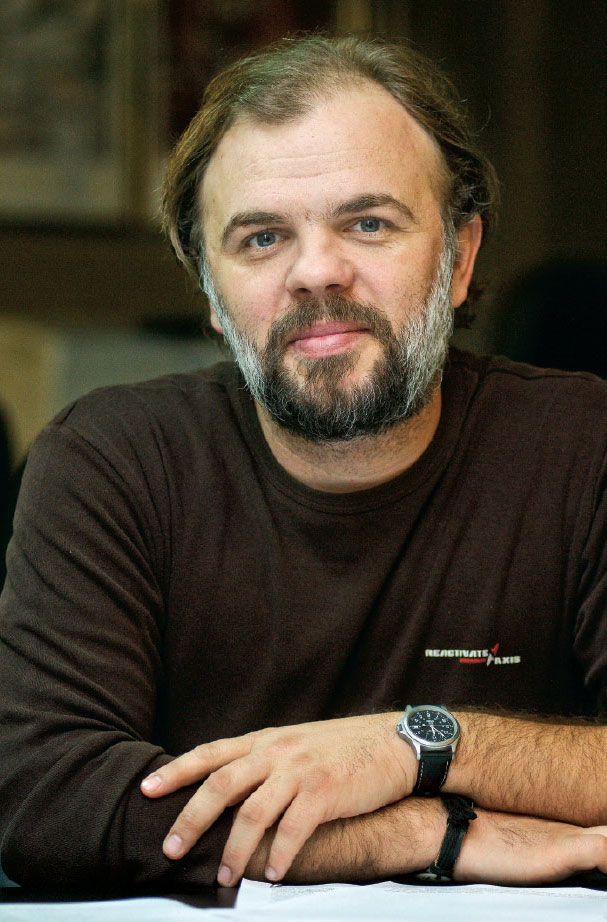 Sci fi Author